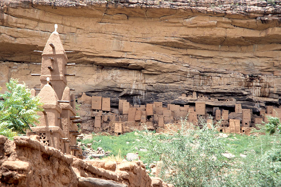 Background: the remnant of the dwelling of the ancient Tellem people by the Bandiagara Escarpment, Dogon country, Mali. *Foreground: a mud mosque of the modern-day Dogon people